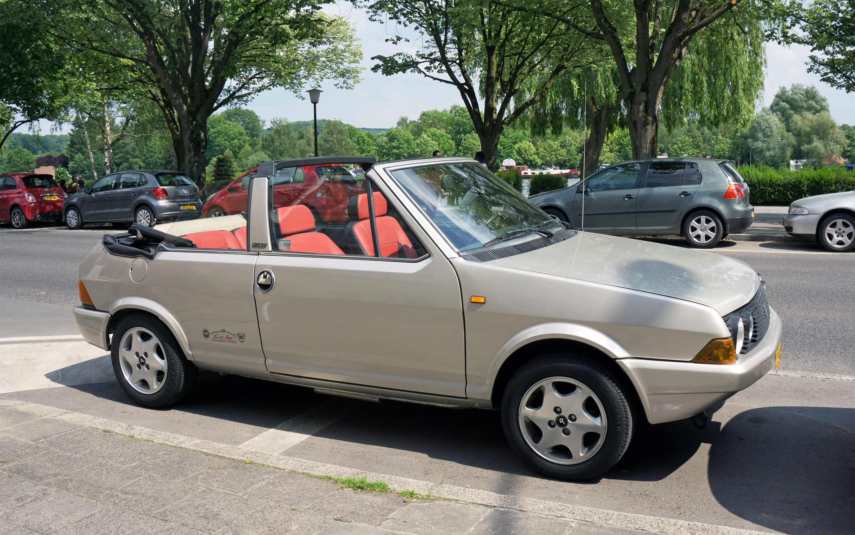 Fiat Ritmo S85 Cabriolet in Remich, Luxembourg